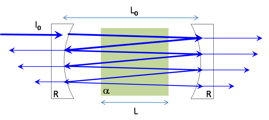 principle of cavity assisted spectroscopy (CEAS, CRDS)